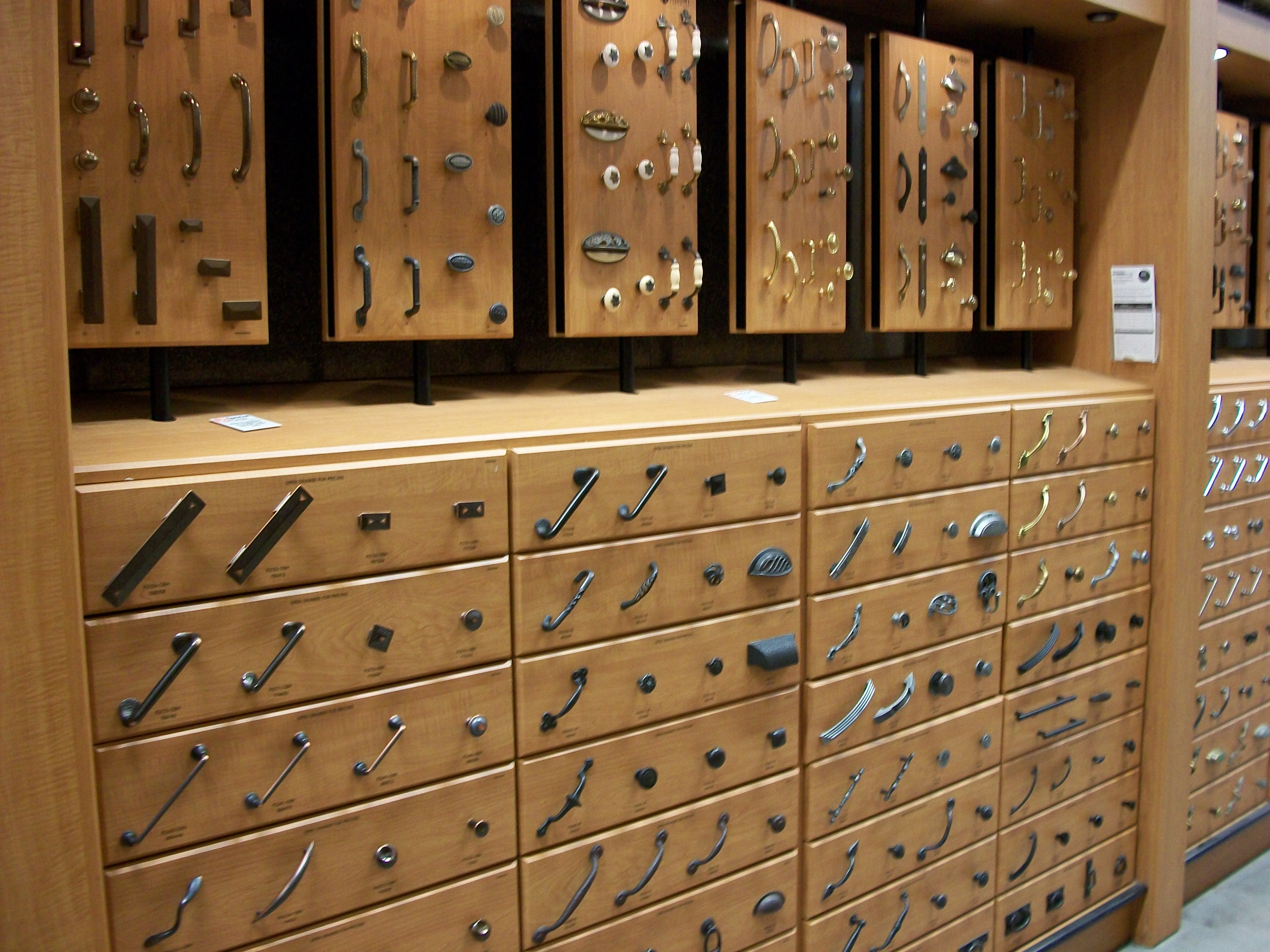 Kitchen cabinet knobs, pulls, handles for display at a home center. There is a wide variety of models and styles available in stores and on the Internet. For use in Wikipedia article on Kitchen cabinets.